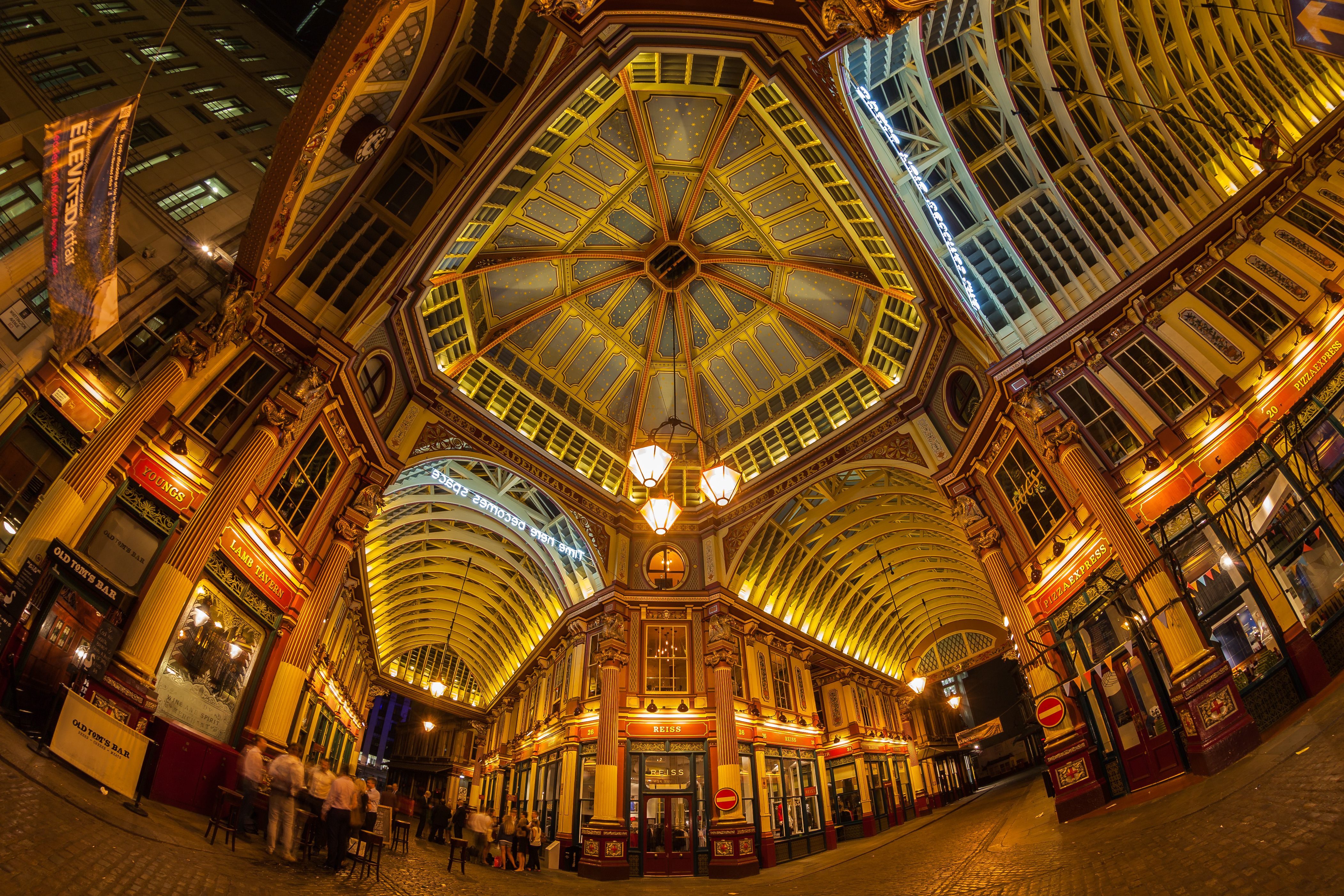 Leadenhall Market, London, England